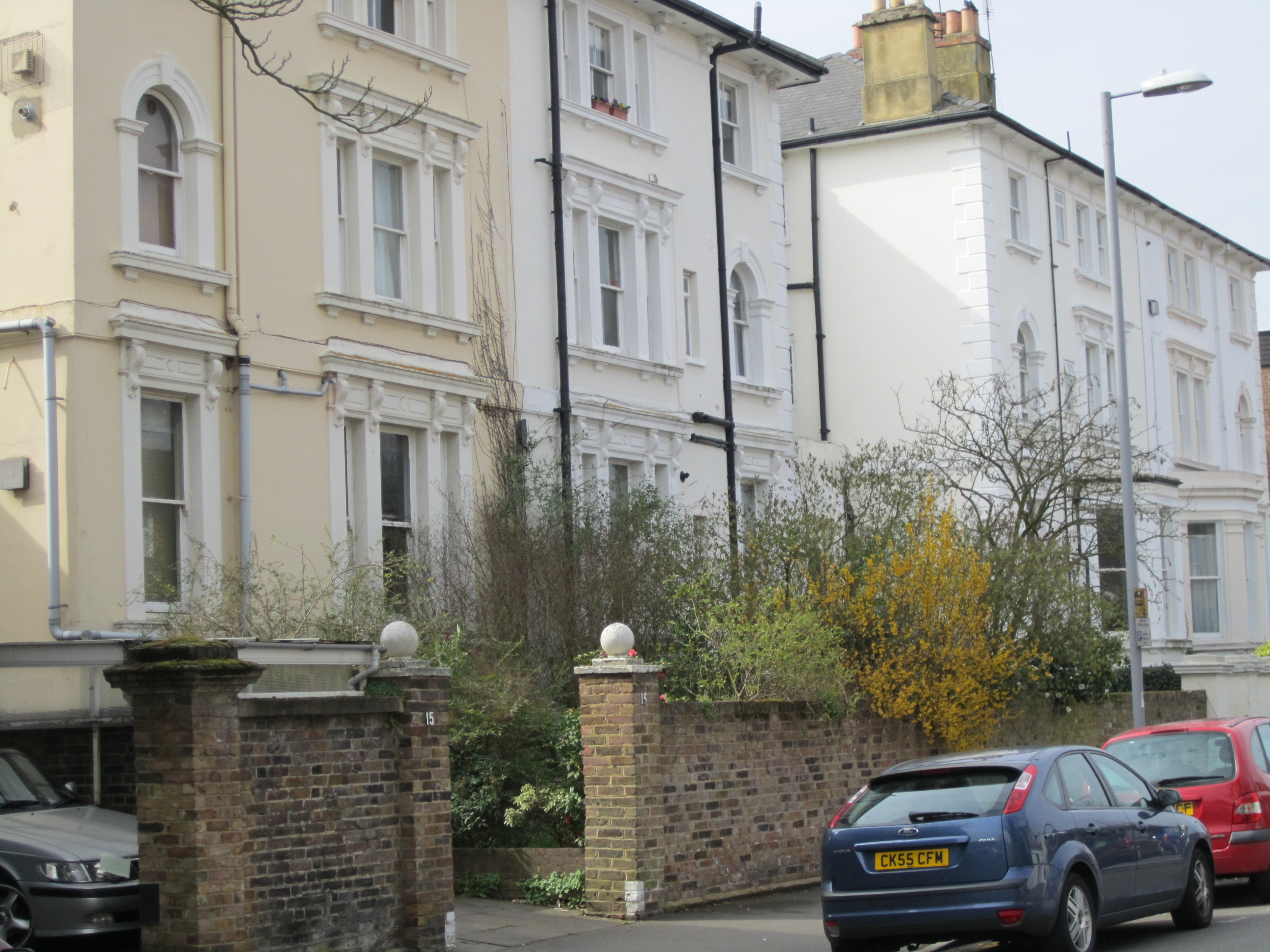 Nos 15-21 Uxbridge Road Kingston, four of 14 surviving Woods period houses.